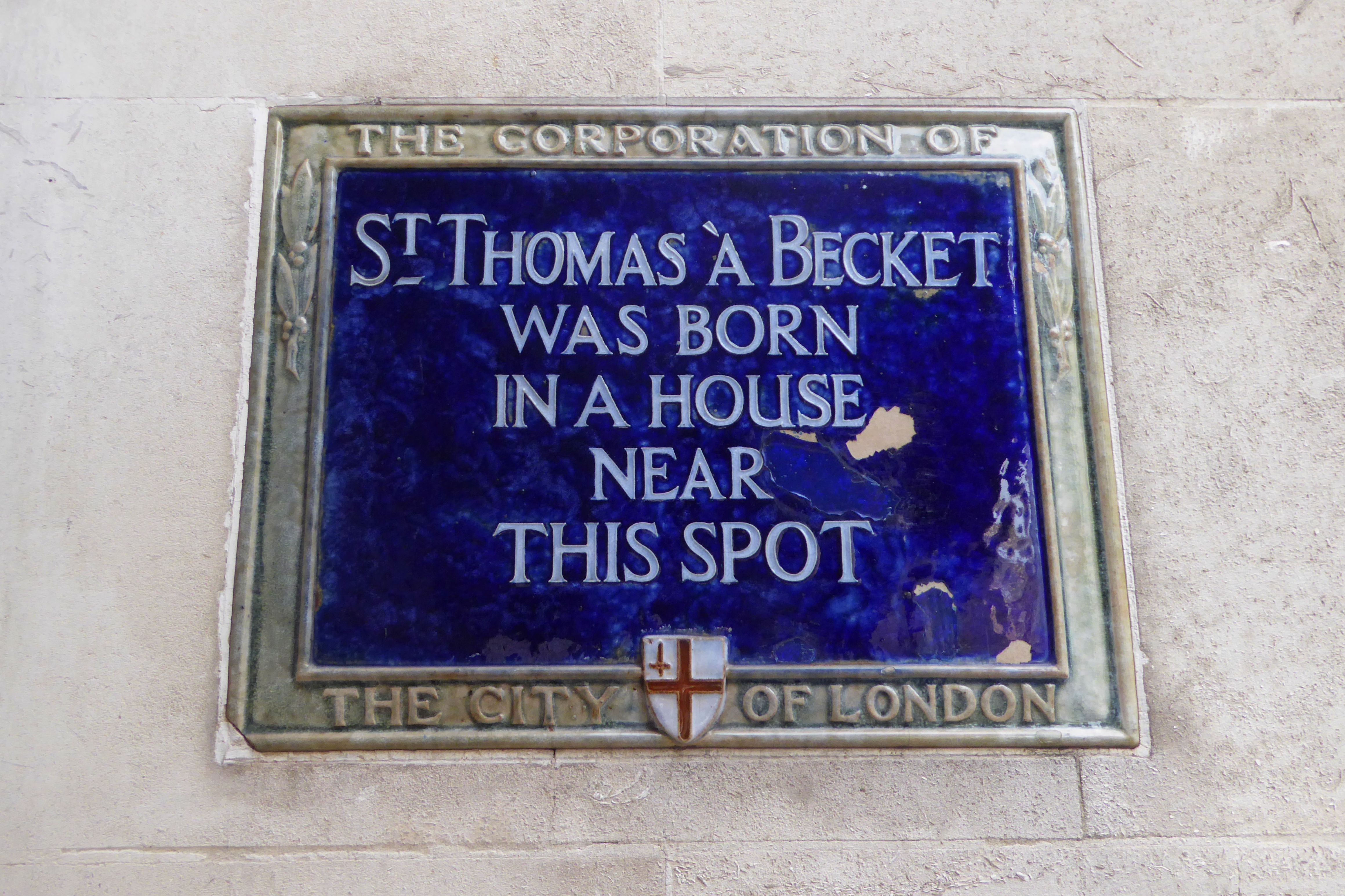 Memorial marking the birthplace of Thomas Becket along Cheapside, City of London.